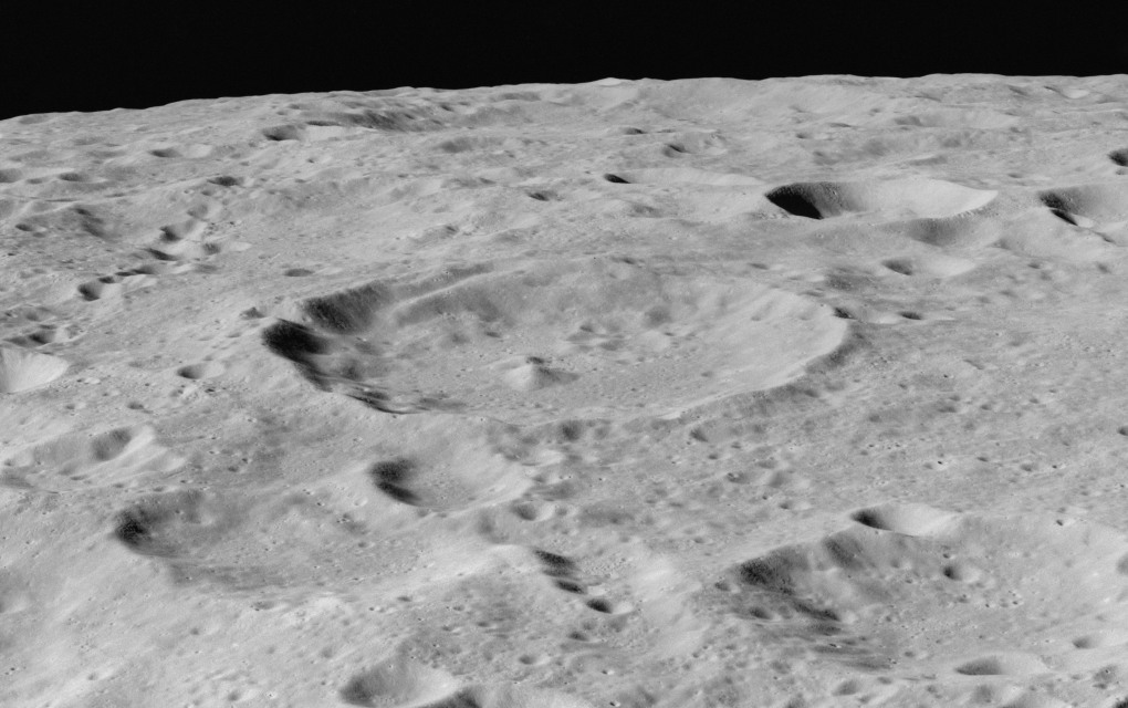 Oblique view of Gavrilov, facing north, on the far side of the moon. Altitude 113 km, sun elevation 26 deg.